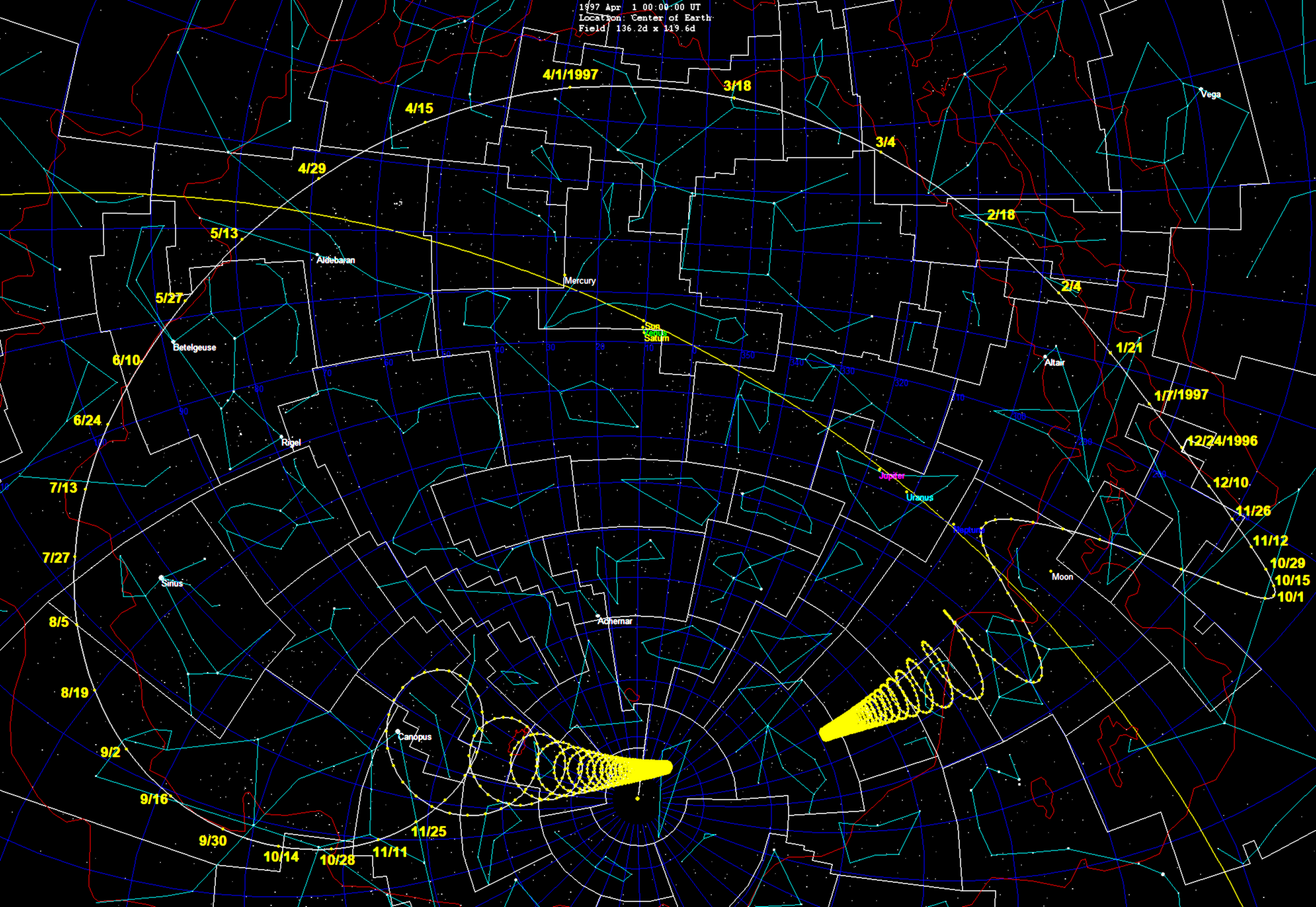 Comet Hale-Bopp starmap